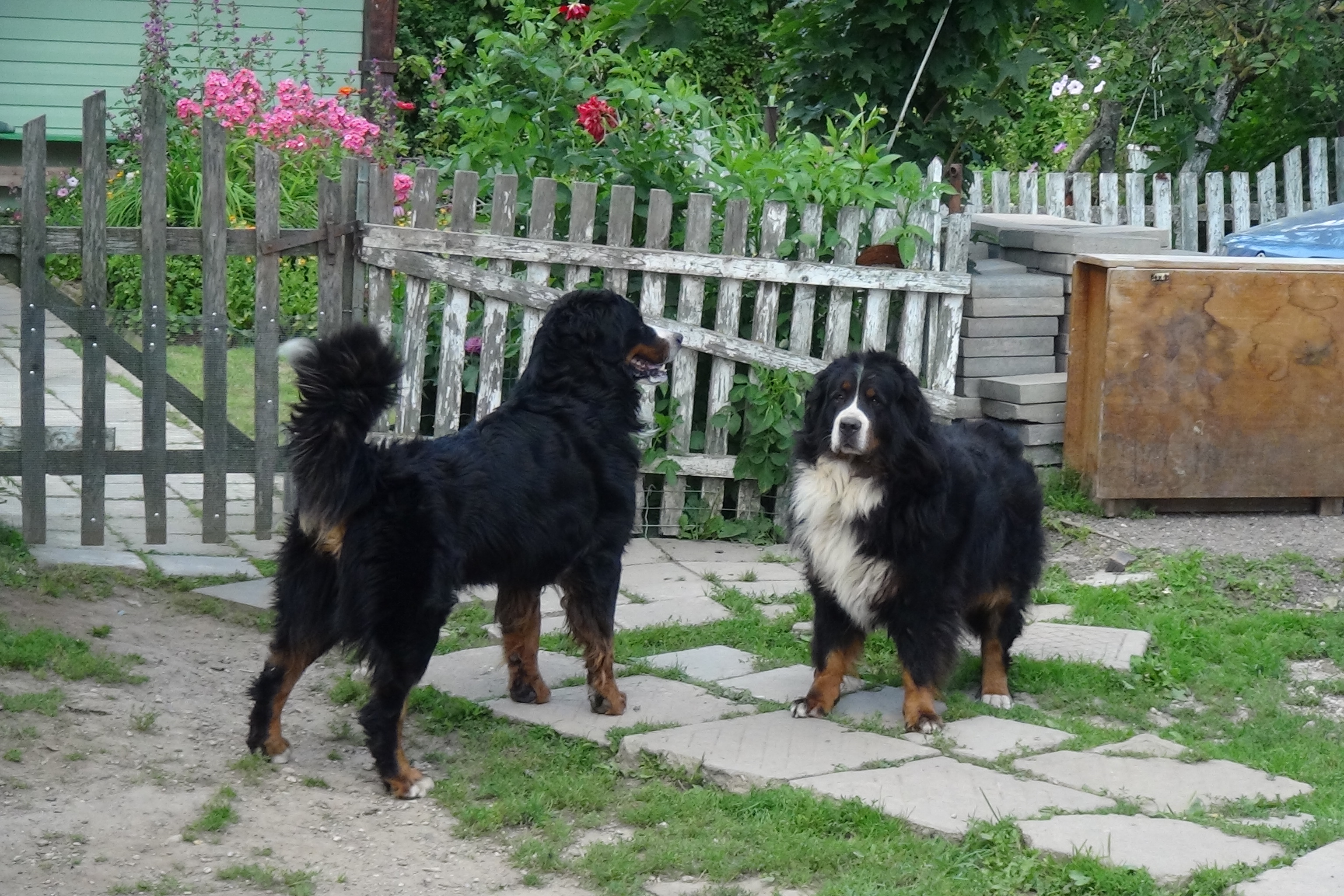 Bernese Mountain Dog (male on the left, female on the right). Photo taken in Raseiniai, Lithuania.